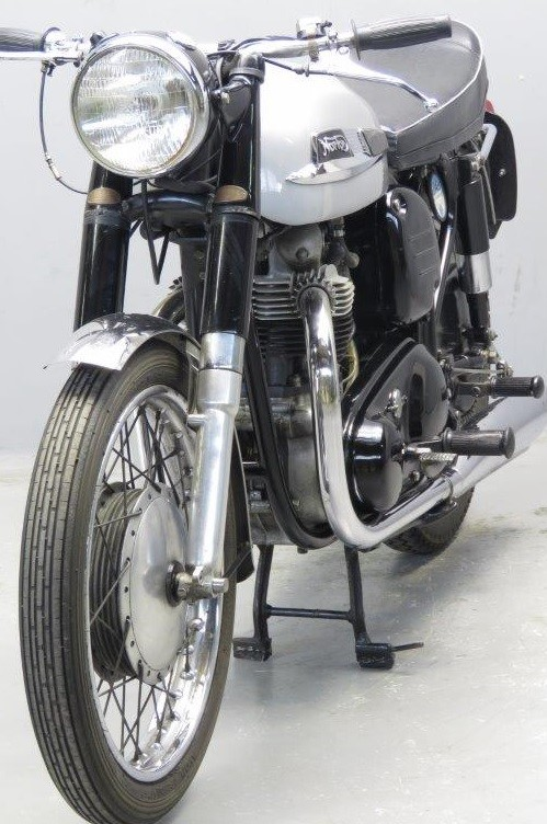 1963 Norton Dominator 88 500cc motorcycle with Norton Roadholder fork